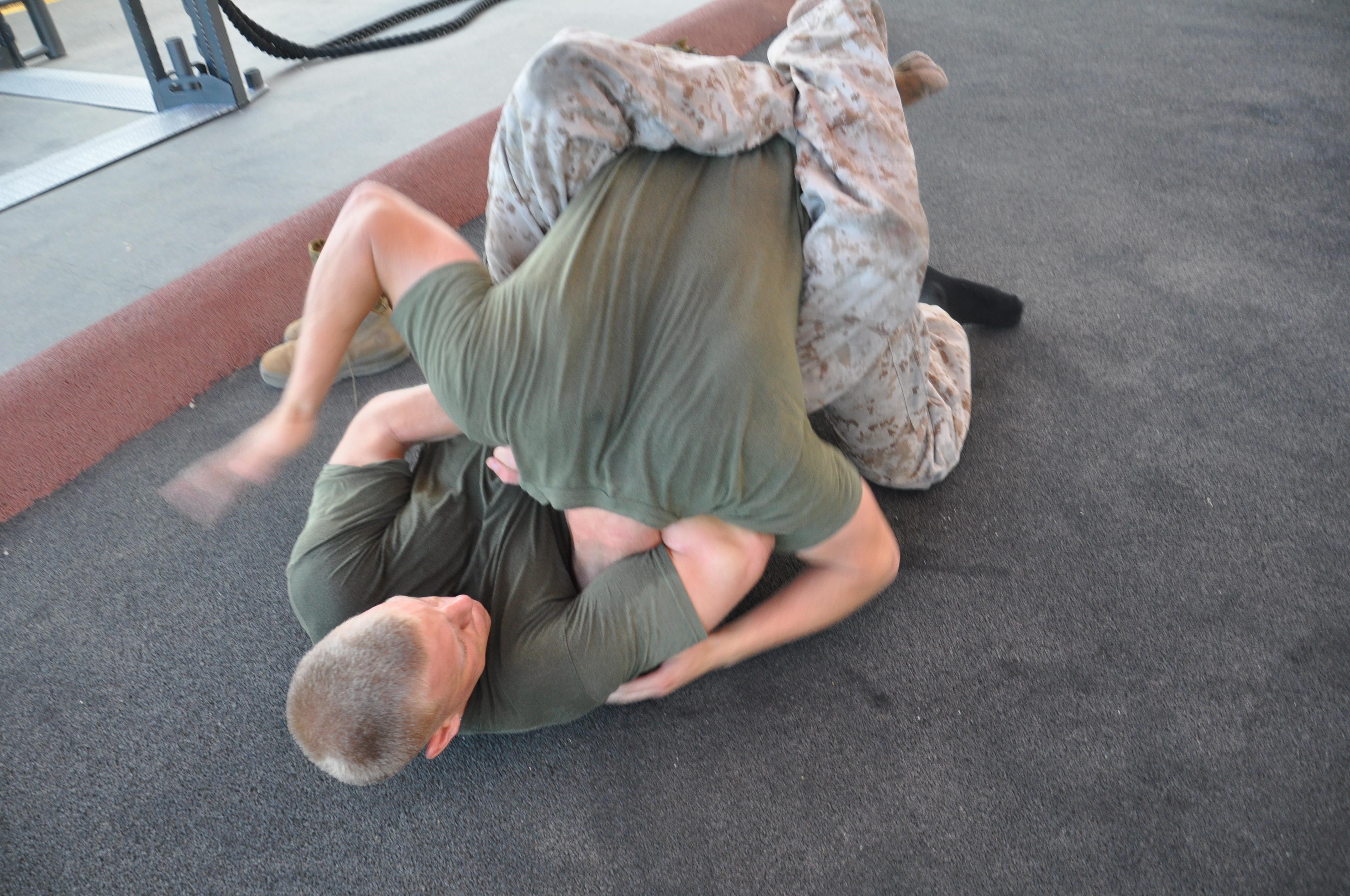 BARSTOW, Ca - Private first class Samuel Ranney, a combat correspondent on Marine Corps Logistics Base Barstow and Lance Cpl. Jeffry Rieck, a supply clerk on MCLB Barstow grapple during a Marine Corps Martial Arts Program class at Mctaverous Hall, July 22. The program is held for Marines to better themselves and become combat ready at all times.